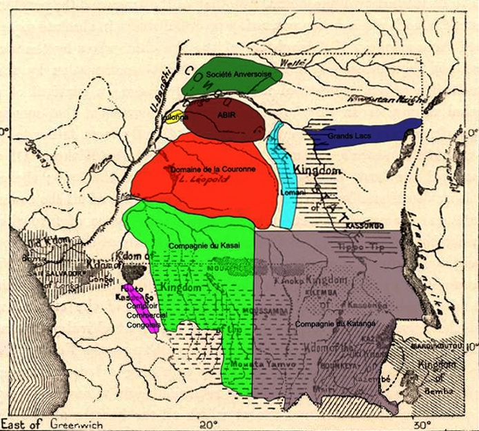 Congo Free State concession companies overlain on an old 1890 map of the area